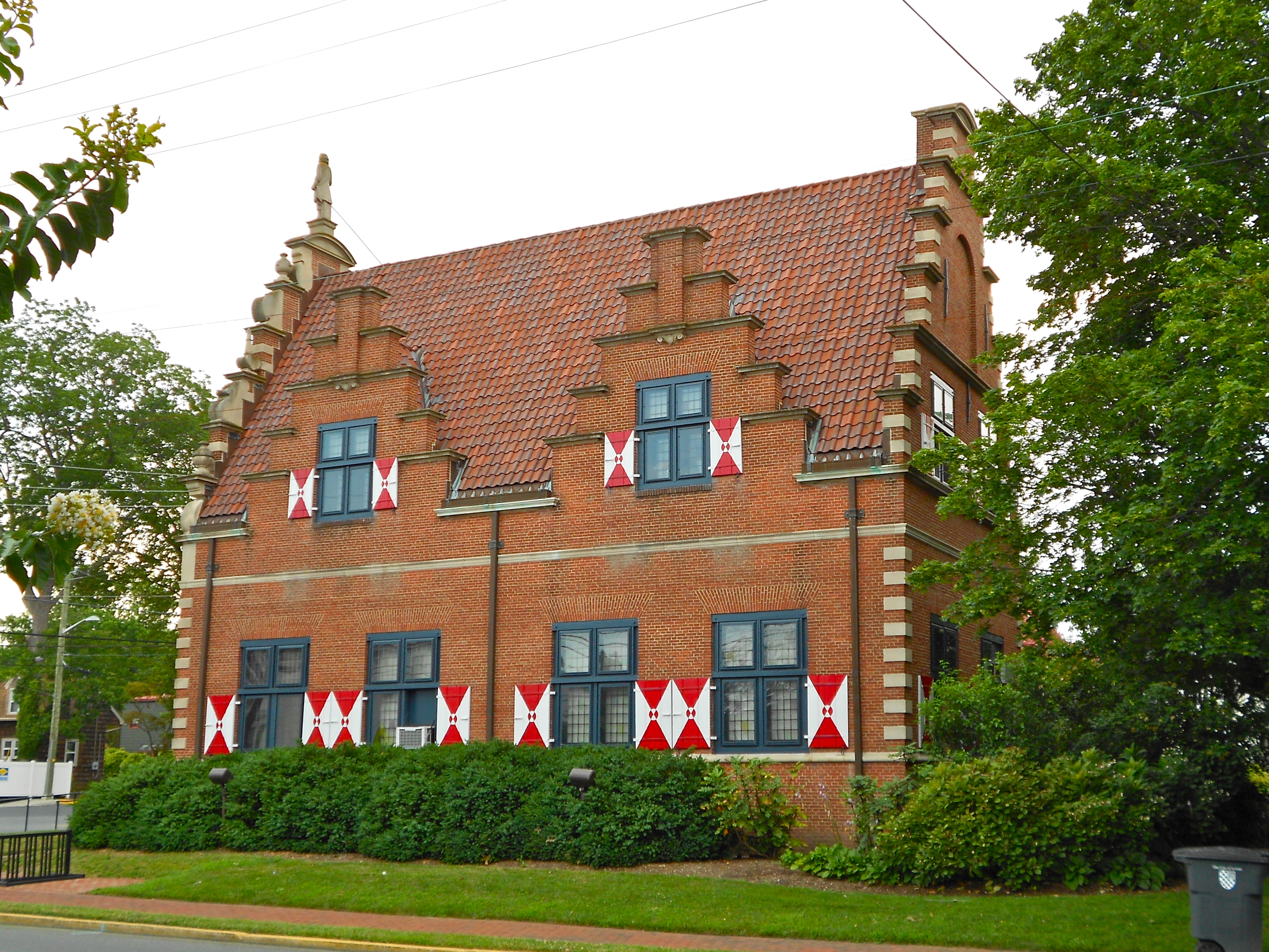 Zwaanendael Club in Lewes Delaware. Built in 1898 as a bank, based on a building in the Netherlands. Used as a Women's Club starting 1930. Now a museum.